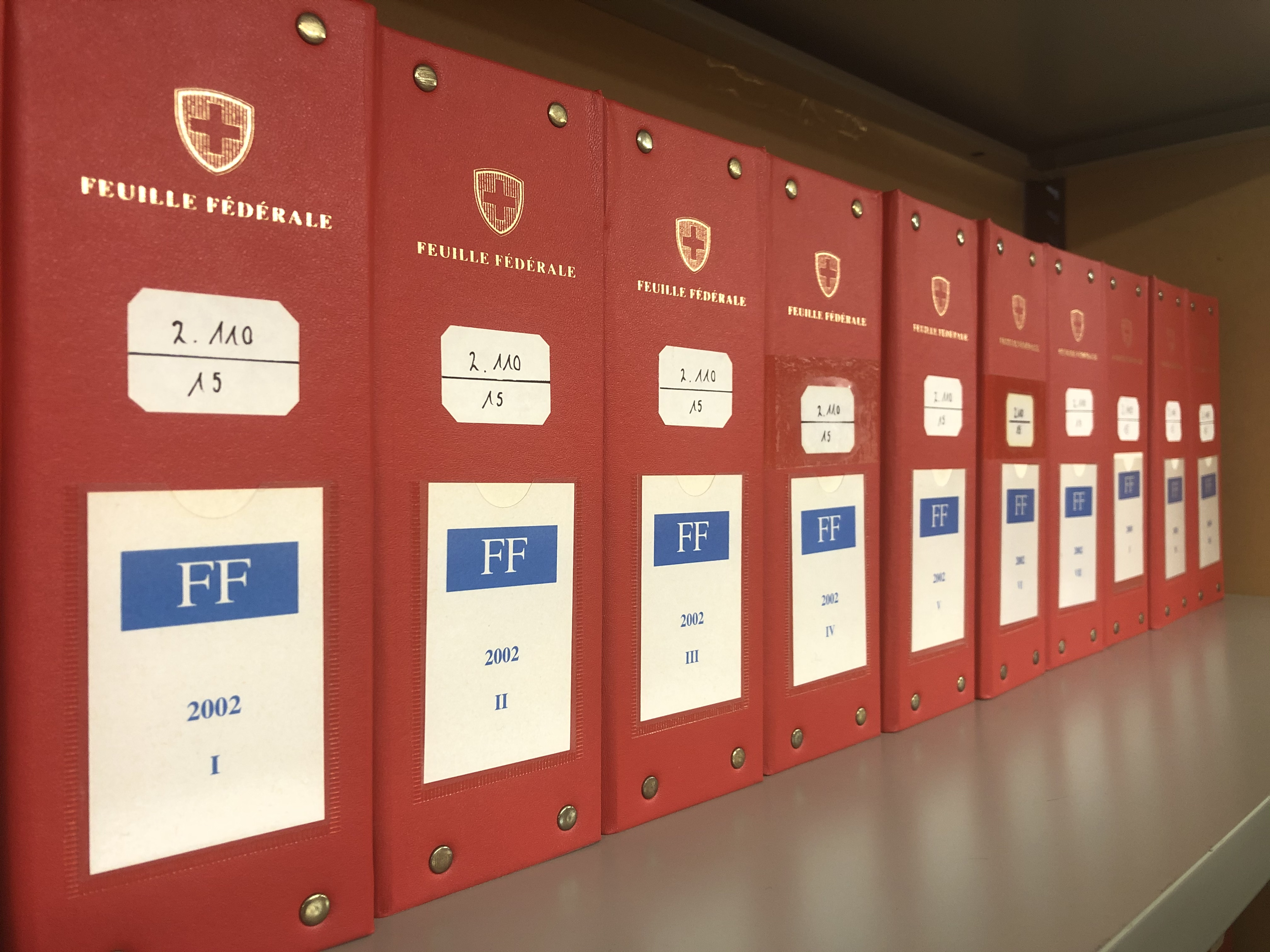 Red binders containing the Swiss Federal Gazette (French version), photo taken at the libraby of law at the University of Bern